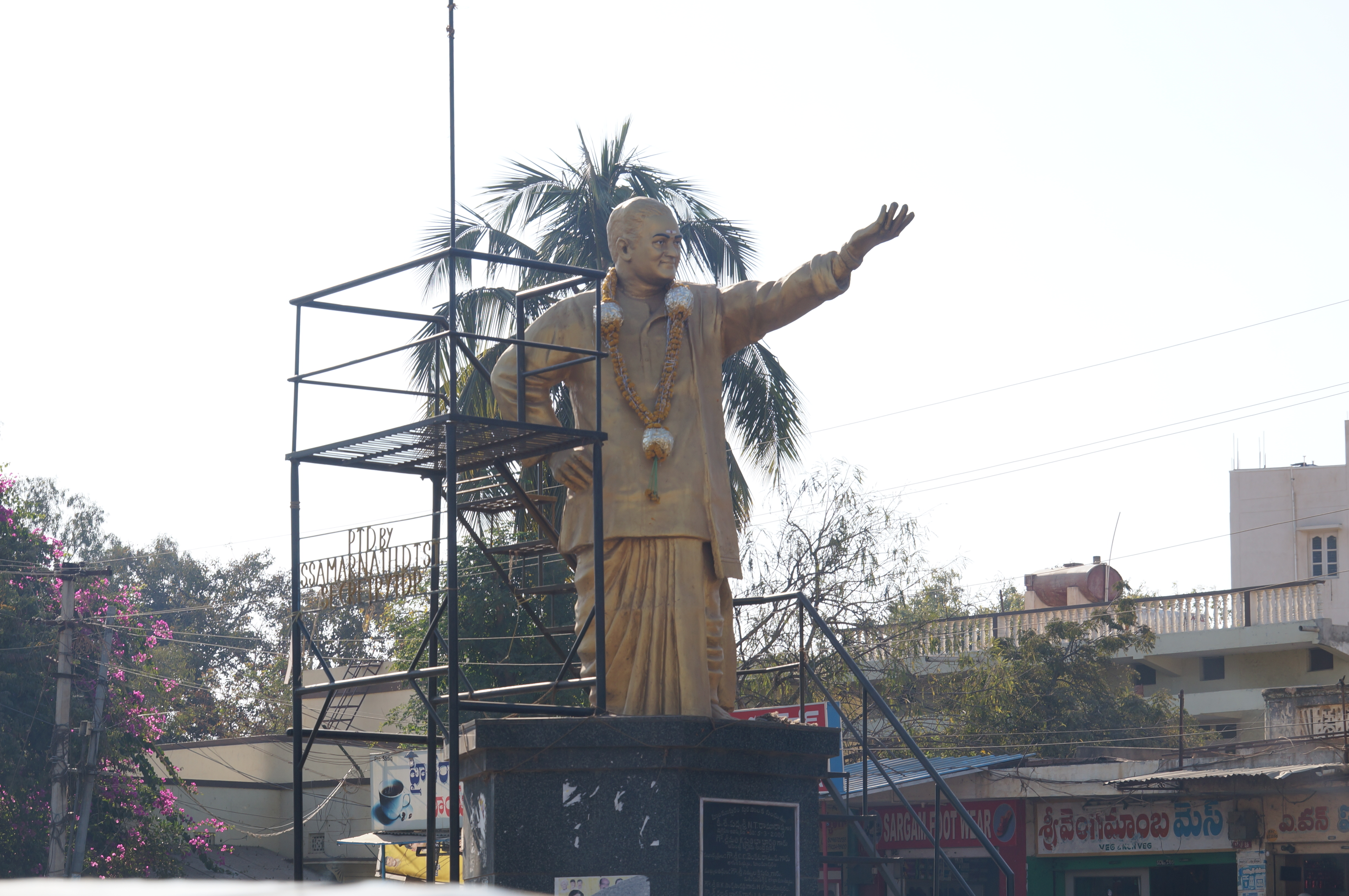 NTR statue at Hindupuram